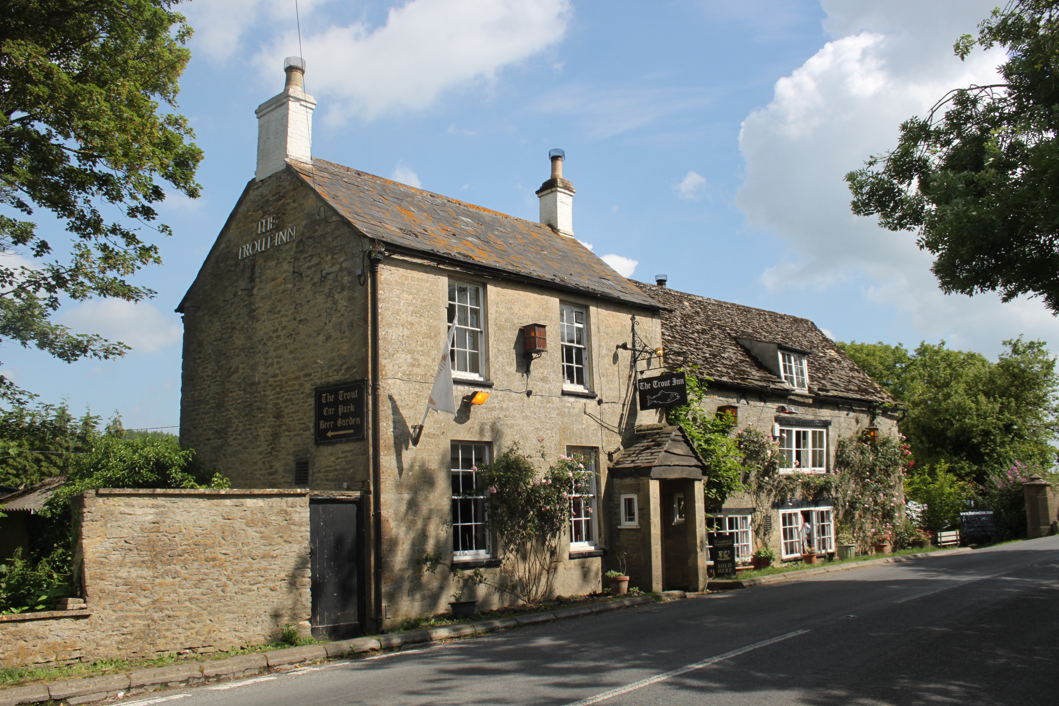 The Trout Inn next to the Thames at Leclade